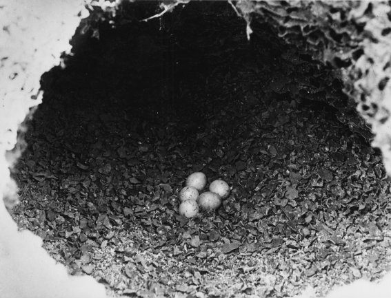 Nest. Photographed in the wild, Burnett River, Queensland, 1922. By Jerrard, C. H. H. (Cyril Henry H.), 1889-1943.